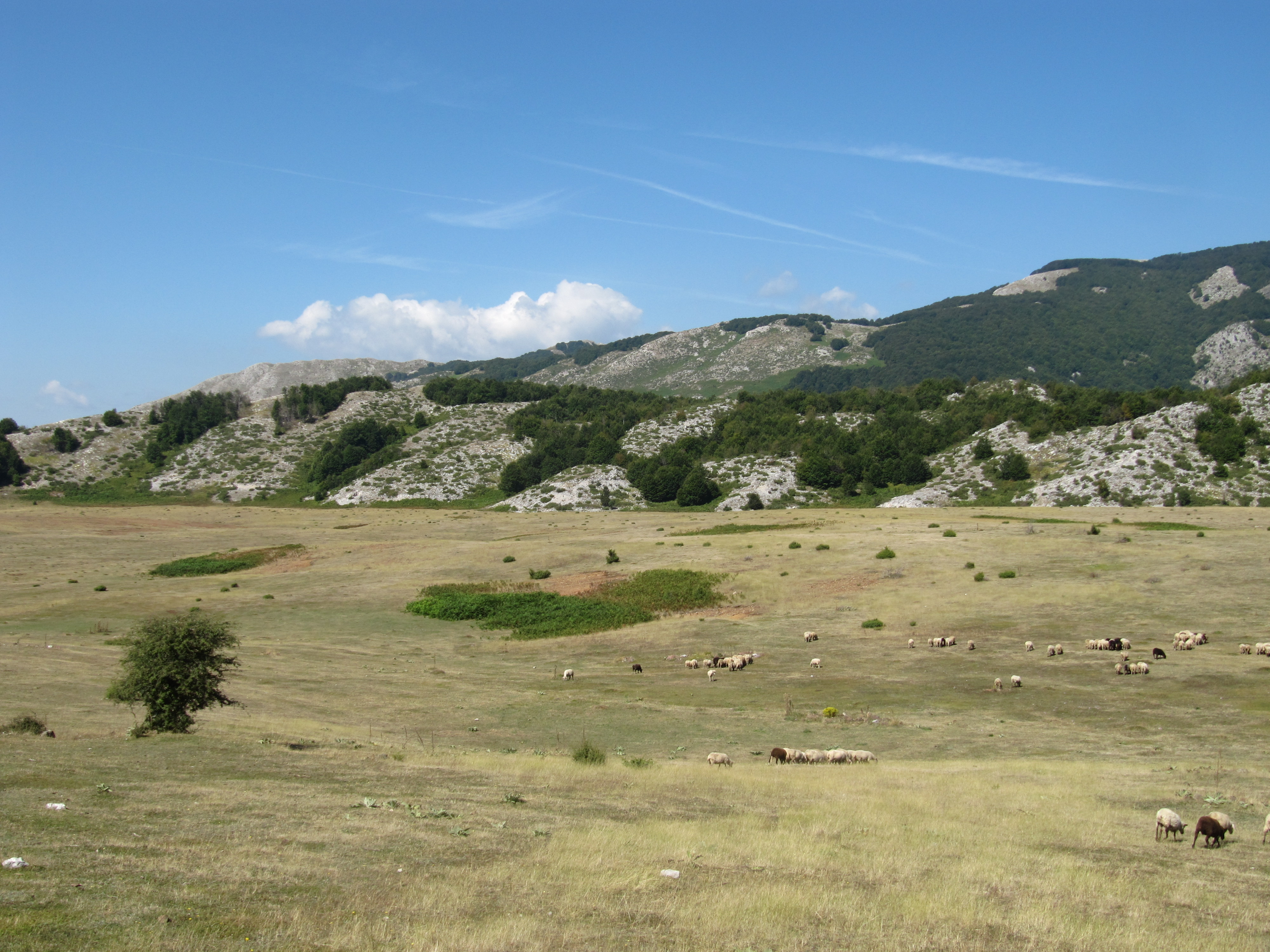 An alpine pasture near Fushe Stude in the Shebenik Jabllanice National Park in Albania